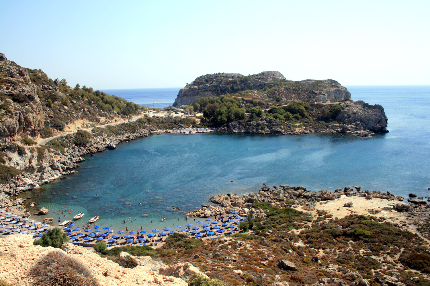 Beach near Faliraki.